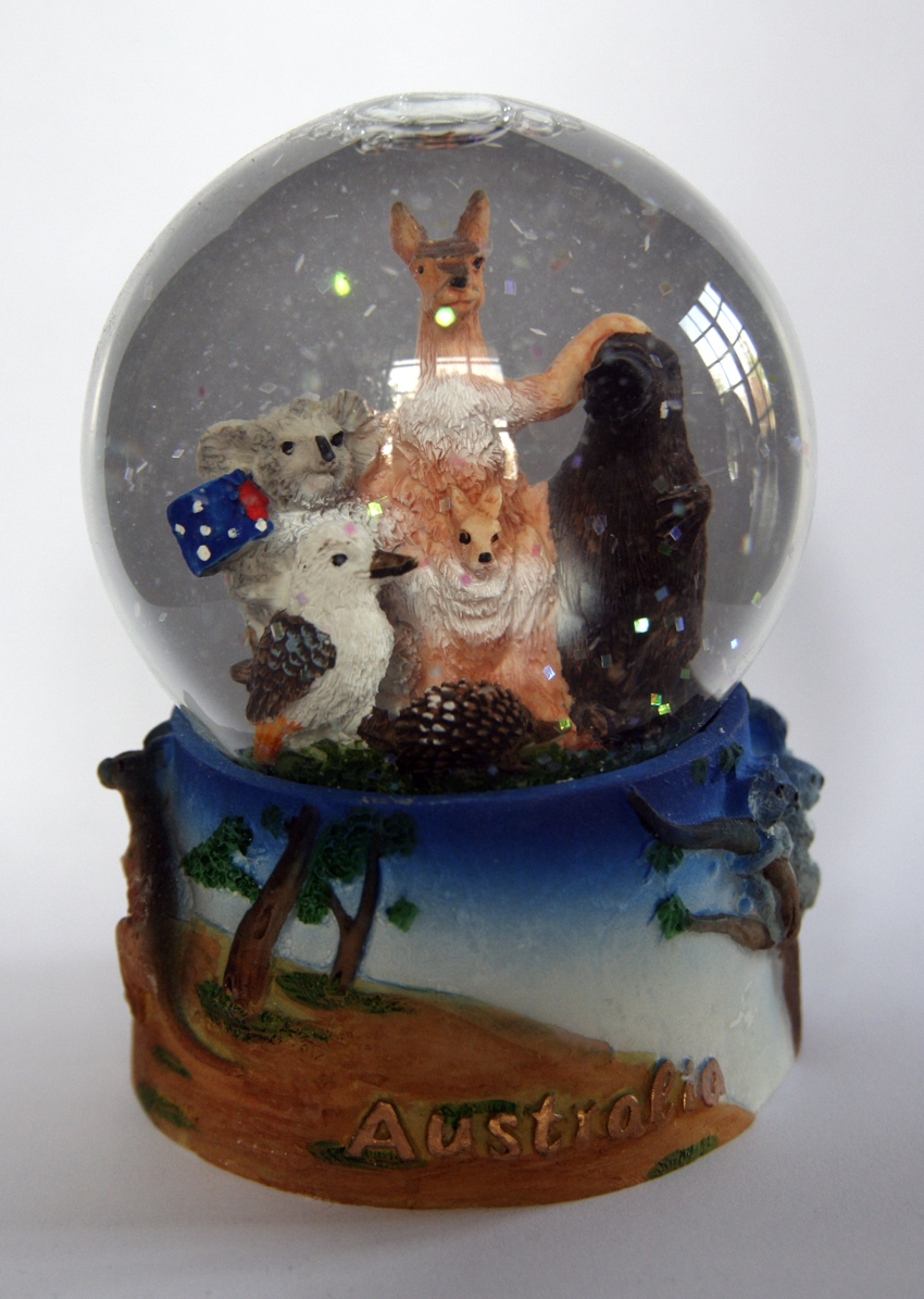 An australian snowlobe ( from )